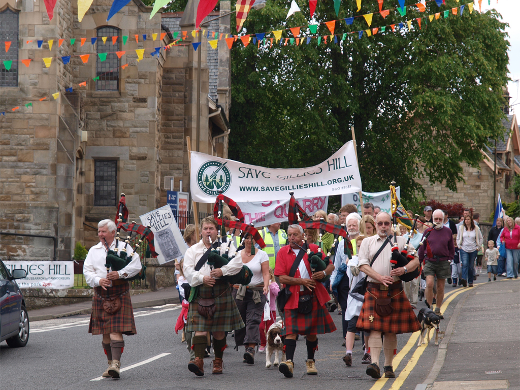 Save Gillies Hill March to Bannockburn, Cambusbarron, Scotland